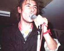 Steve Ignorant performing with Crass at the Wapping Autonomy Centre, East London, December 1981 Steve Ignorant photo by Graham Burnett (quercus robur). If re-used a credit would be appreciated but is not compulsory!